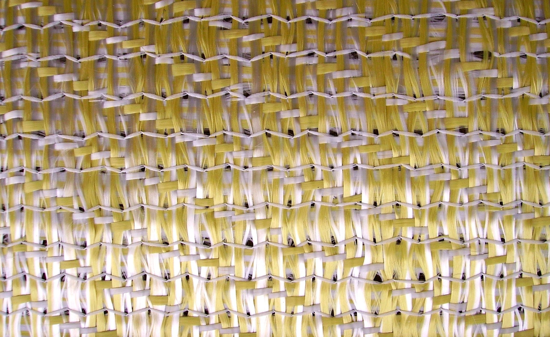 Glass/aramid hybrid area for high tension and compression. Used in the reinforced plastics industry. Weight 580 g/m2, thickness 0.80 mm.